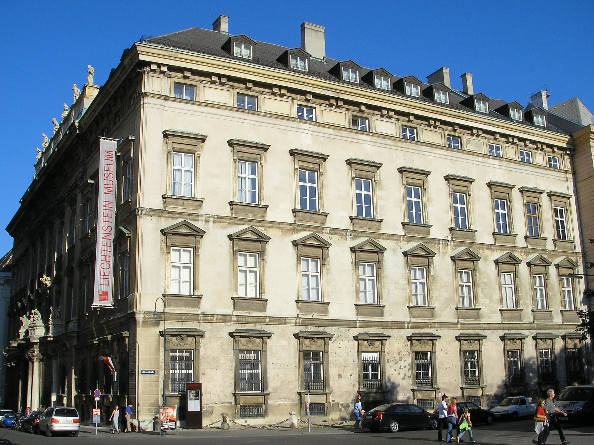 Image of the Palais Liechtenstein located at Bankgasse in Vienna's first district Innere Stadt. The palace is also known as the Stadtpalais Liechtenstein (city-palace) in order to differentiate between the other Liechtenstein Palace in Rossau. The image was taken before the restoration that took place between 2009-2013.